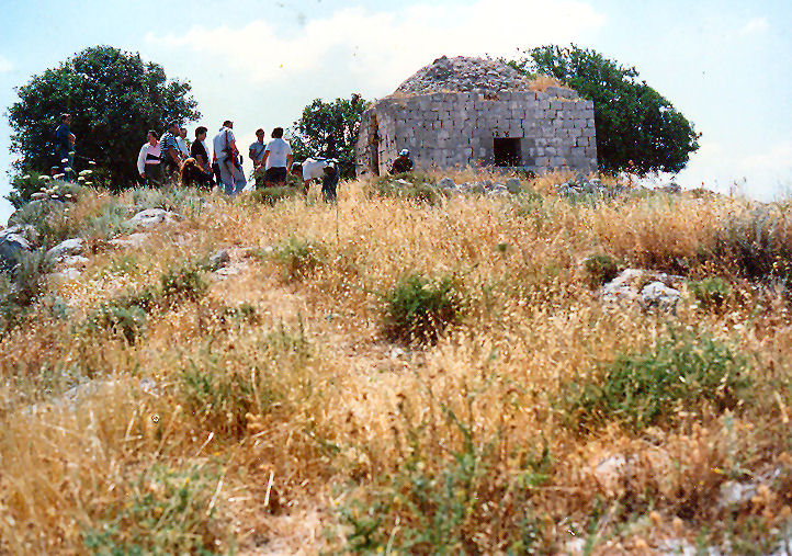 Seih_ahmed_a-tuban near Kur Arab village